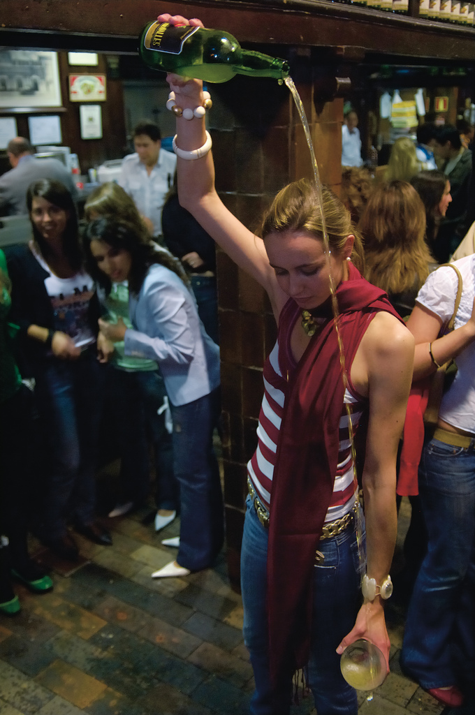 Casa Mingo This photograph can be used for publications, including this copyright statement: “©PromoMadrid, author Max Alexander”. Esta fotografía puede usarse en publicaciones, incluyendo la declaración “©PromoMadrid, autor Max Alexander”.